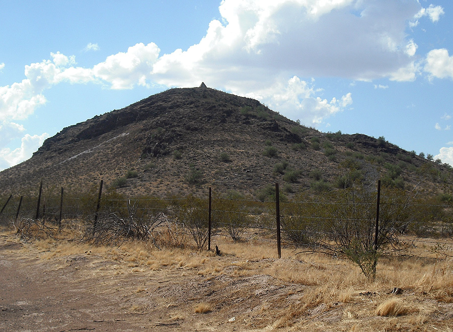 Poston Butte in Florence, Arizona. The pyramid at the summit is the tomb of Charles D. Poston, known as the "Father of Arizona" because he lobbied President Lincoln and Congress for the creation of the Territory of Arizona.